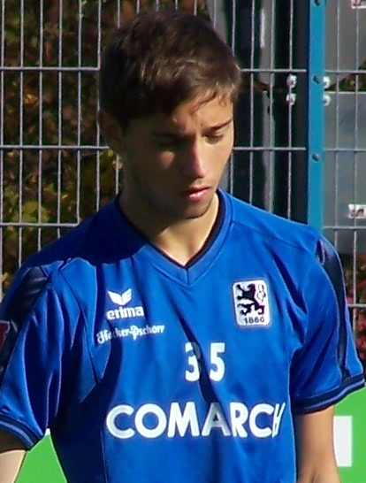 Moritz Leitner, 1860 munich, training